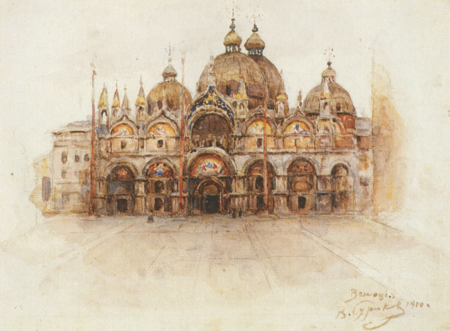 St. Mark's Basilica